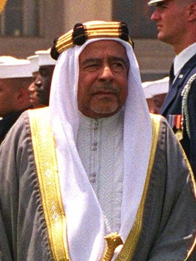 Isa bin Salman Al Khalifa, Emir of Bahrain, during a visit to the Pentagon during a visit to the Pentagon on June 2, 1998.